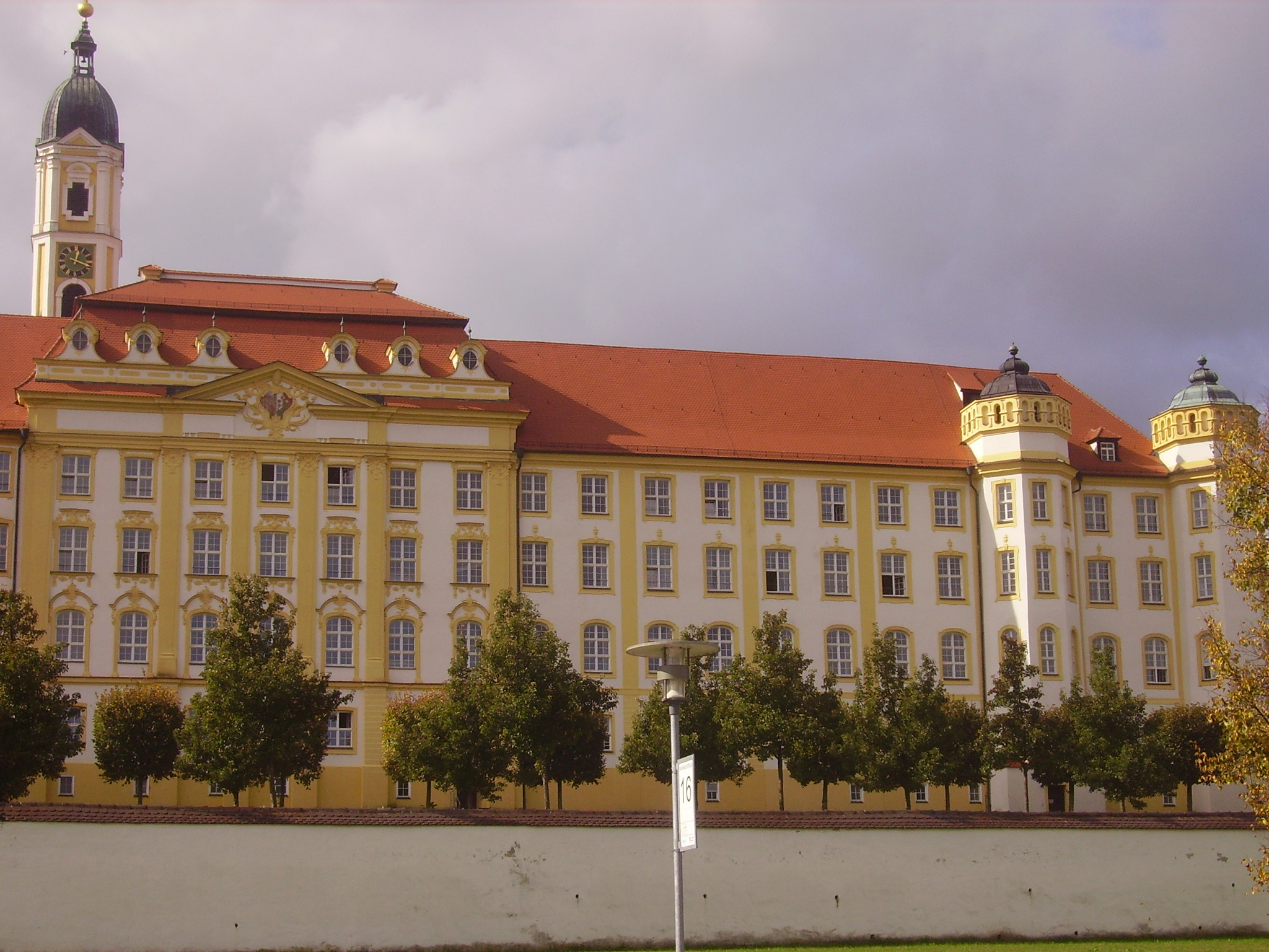 Palace of Ochsenhausen Monastery, Ochsenhausen